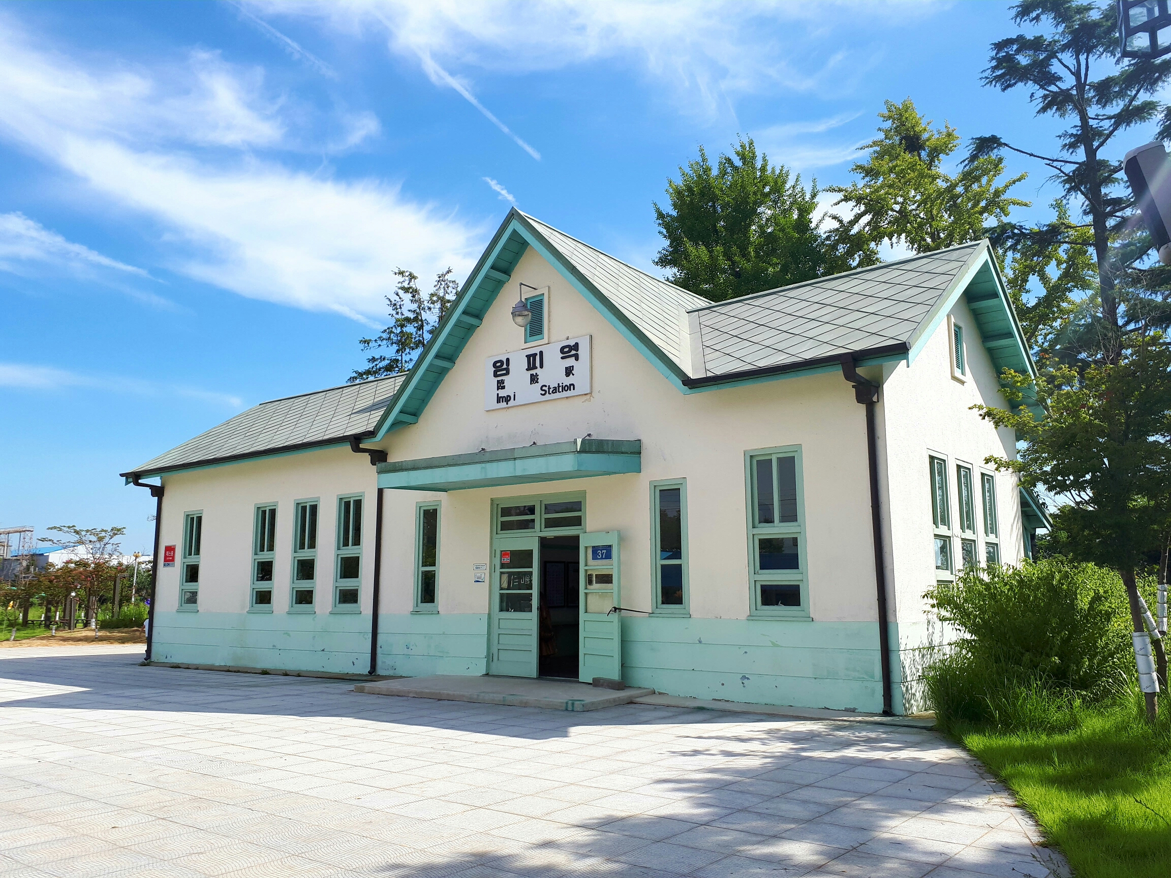 Impi Station (Registered cultural properties of South Korea #208)